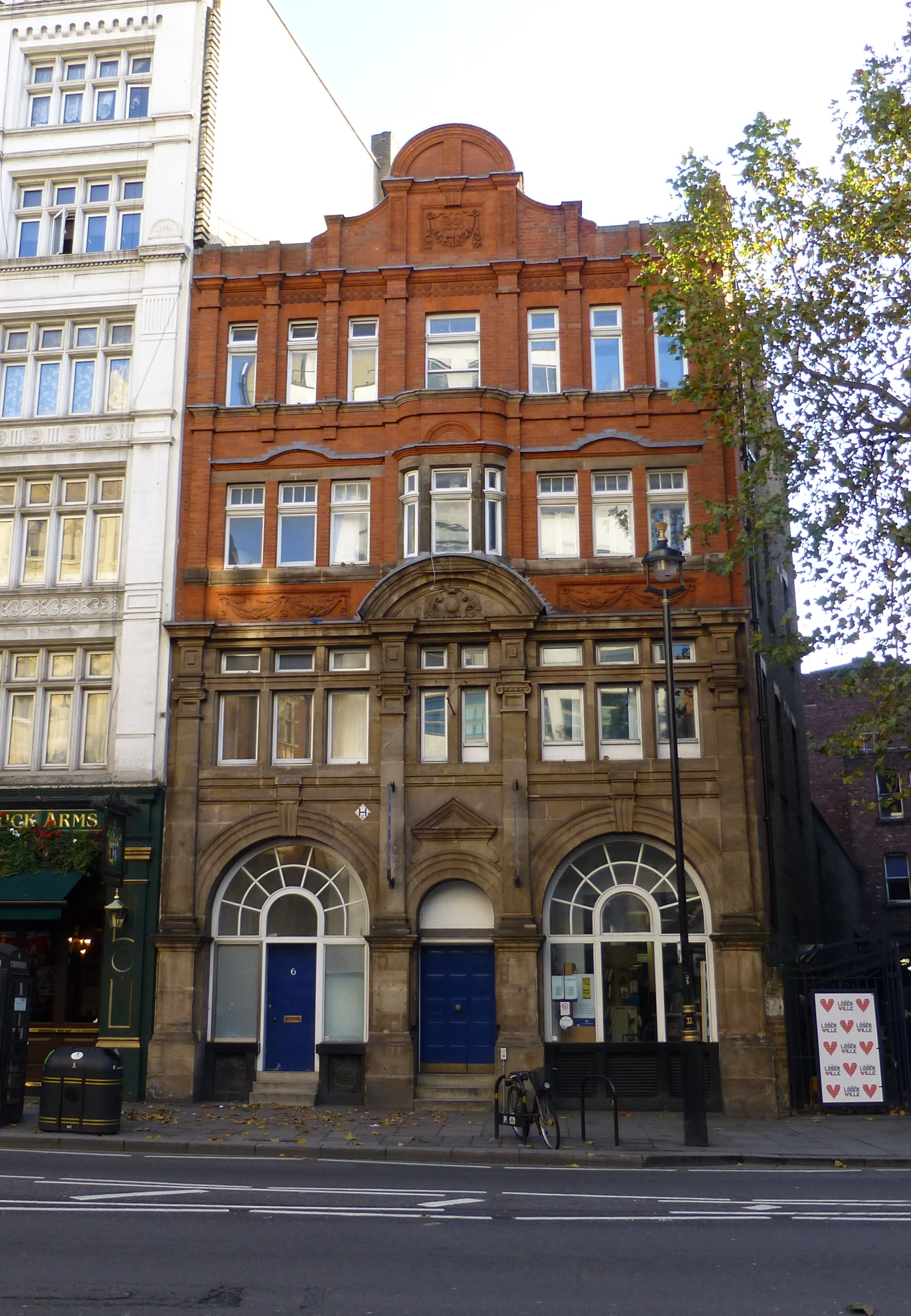 Charing Cross Library, on Charing Cross Road